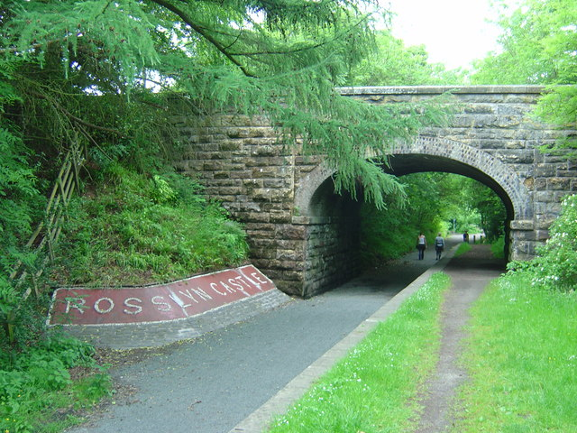 Rosslyn Castle station Some distance from the castle (the valley of the North Esk runs between them) this station on the railway branch to Penicuik closed to passengers in 1951. The track now serves as a footpath and cycleway from Penicuik to Dalkeith.